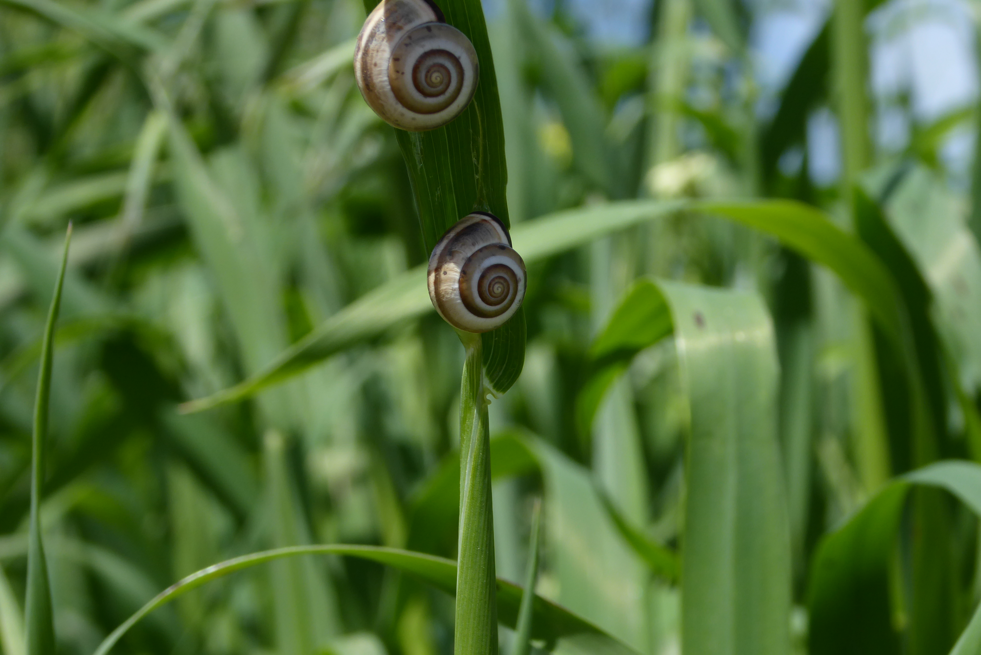 Savion blossoms